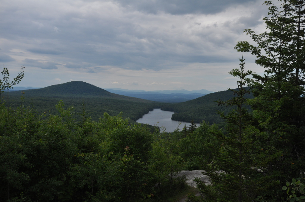 View of Kettle Pond and surrounding state park, taken from Owl's Head peak in New Discovery State Park, Peacham, Vermont.